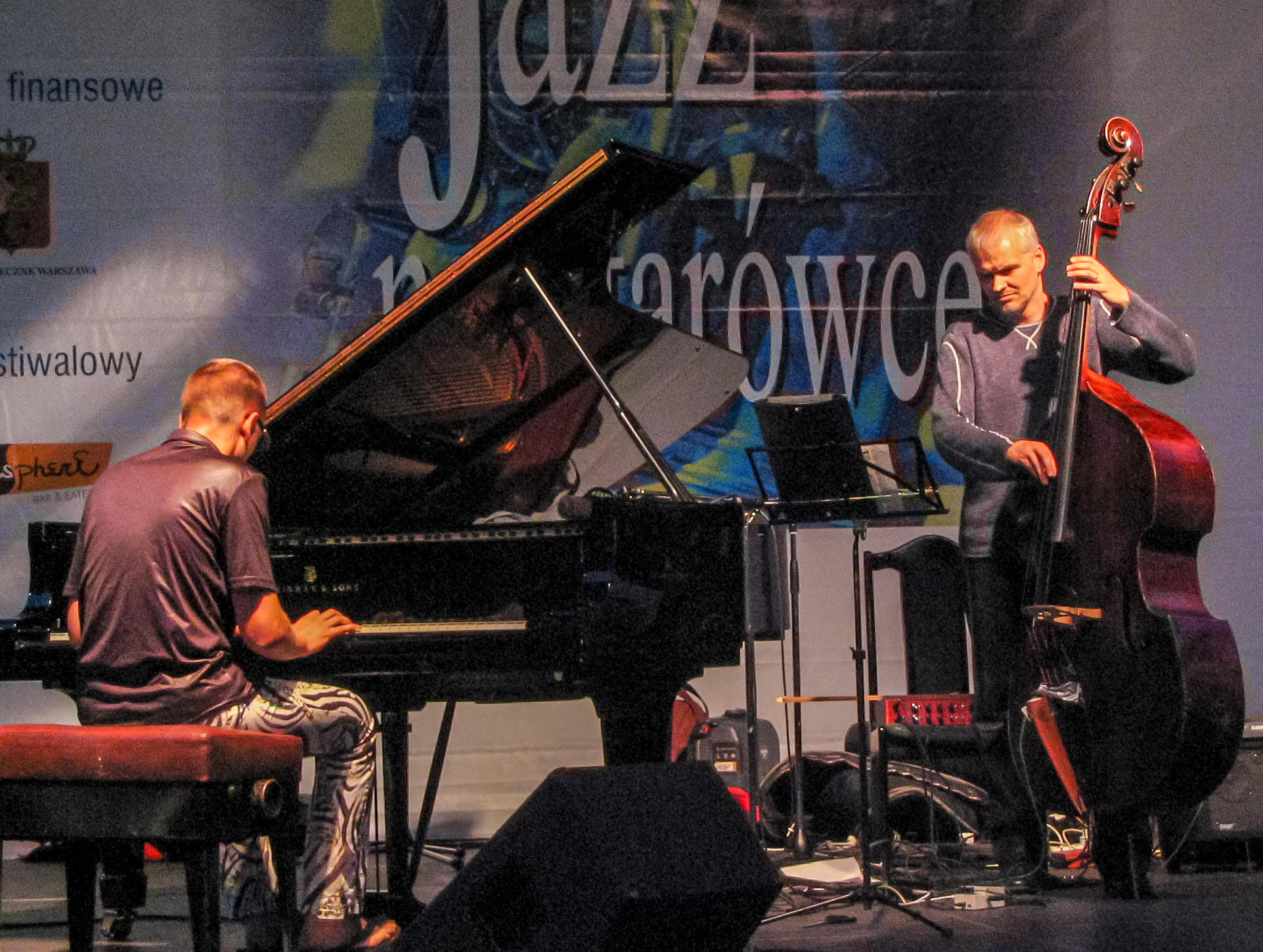 Leszek Mozdzer - piano and Lars Daniellsson - bass, in concert (as "Dream Team" with Zohar Fresco) Place: Old Town Square, Warsaw, Poland Date: 2004-07-31 Author: Robert Drózd